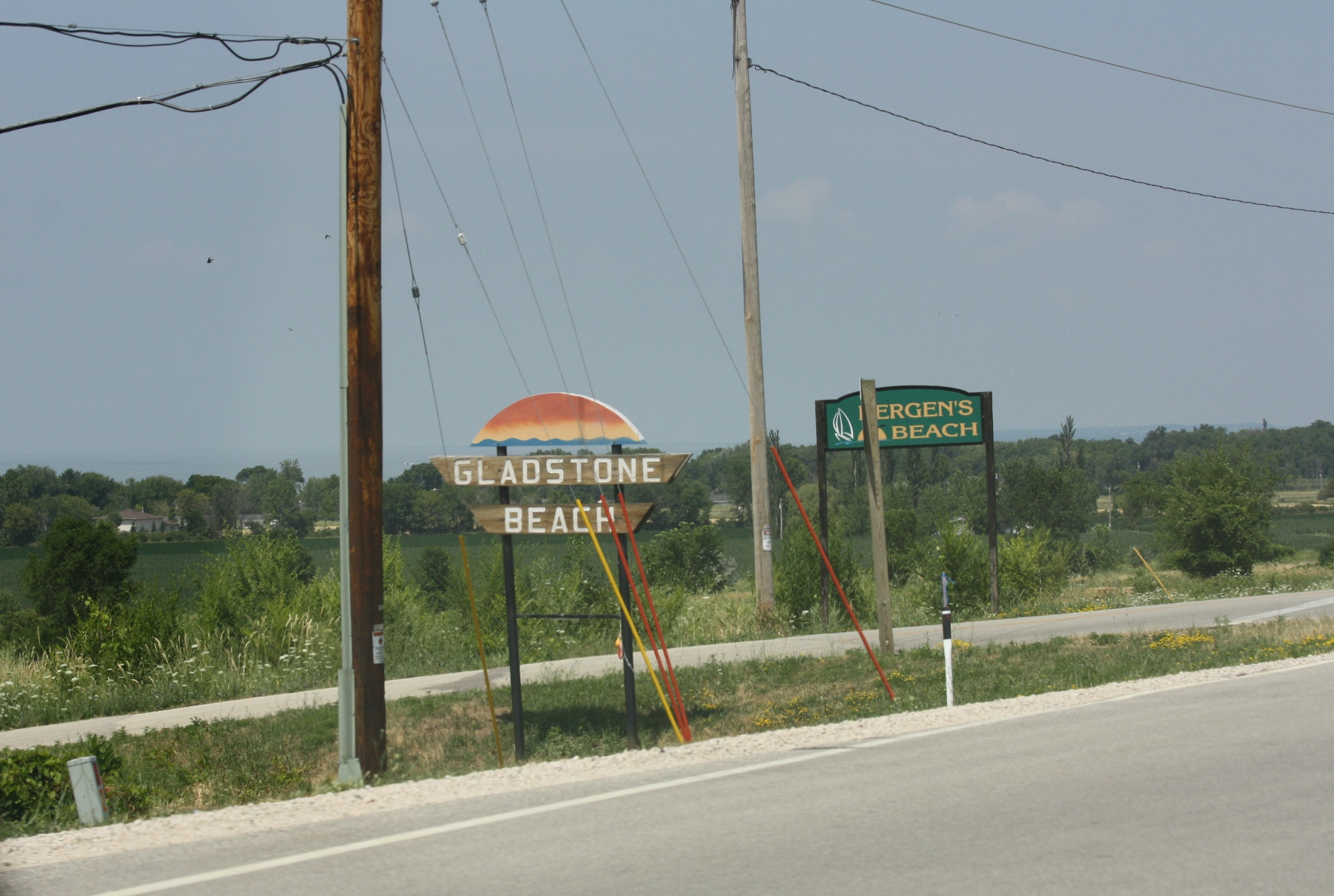 The signs for Gladstone Beach, Wisconsin and Bergen Beach, Wisconsin.